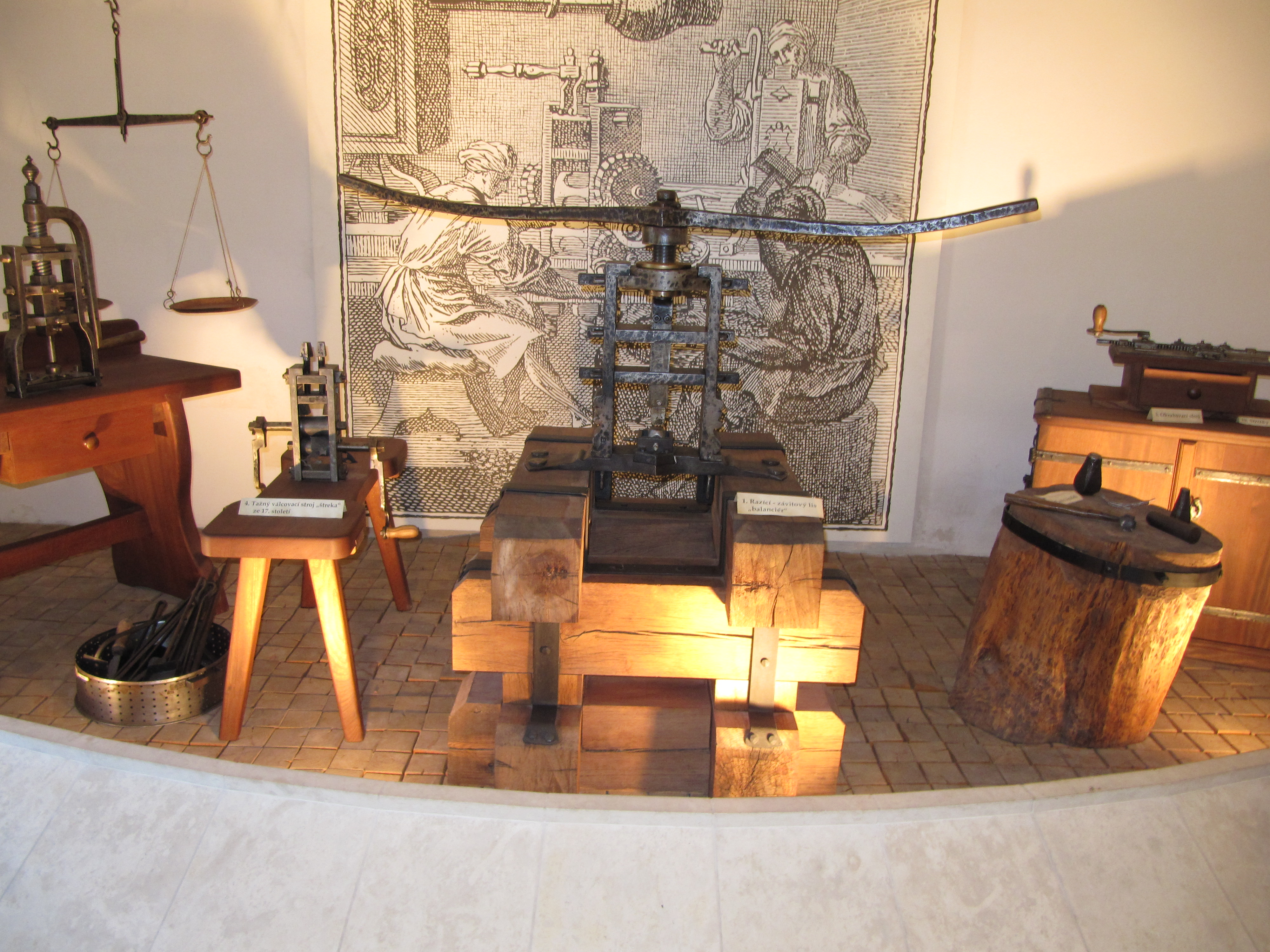 Kroměříž, Czech Republic. Mint.